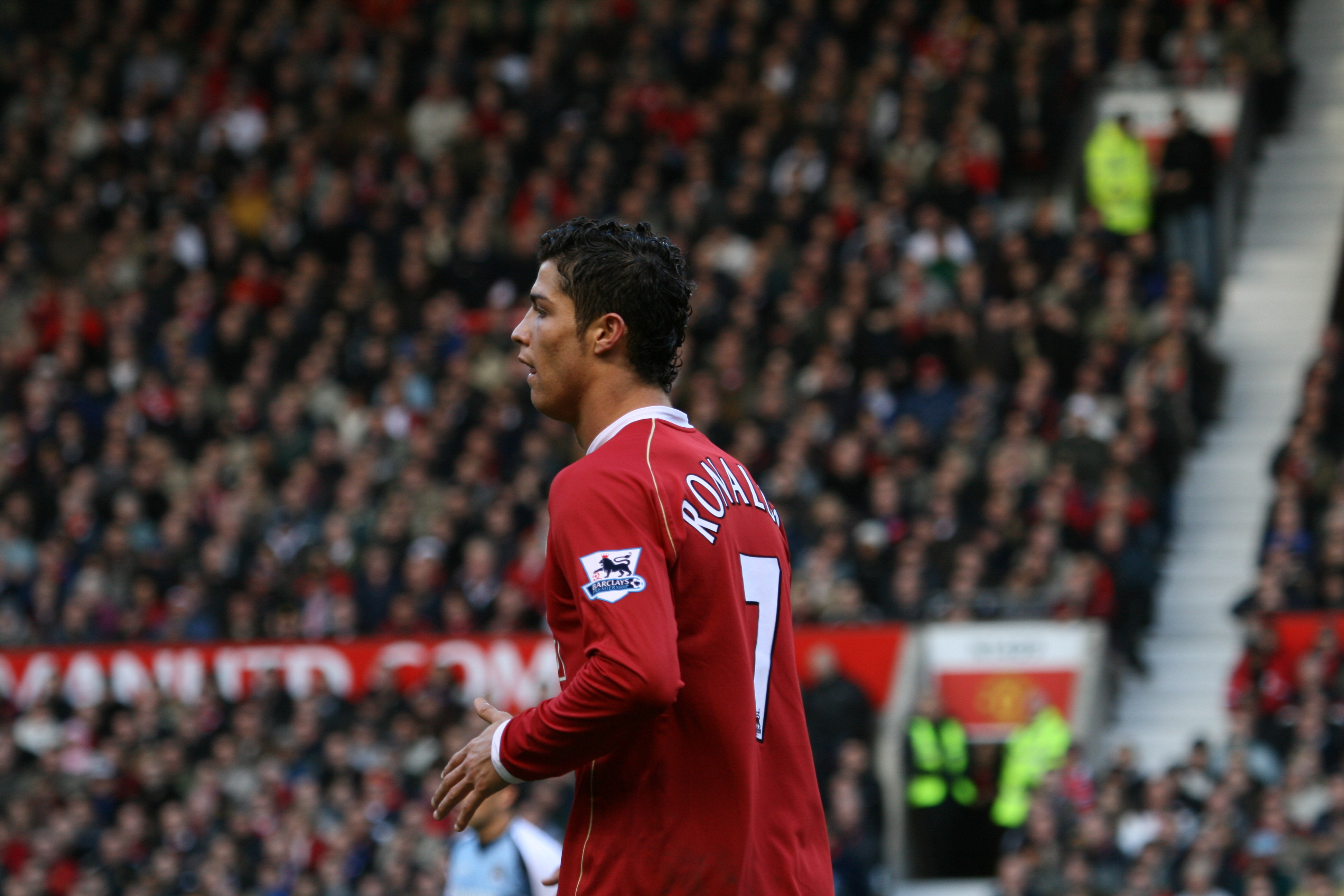 Real Madrid C.F. footballer Cristiano ronaldo